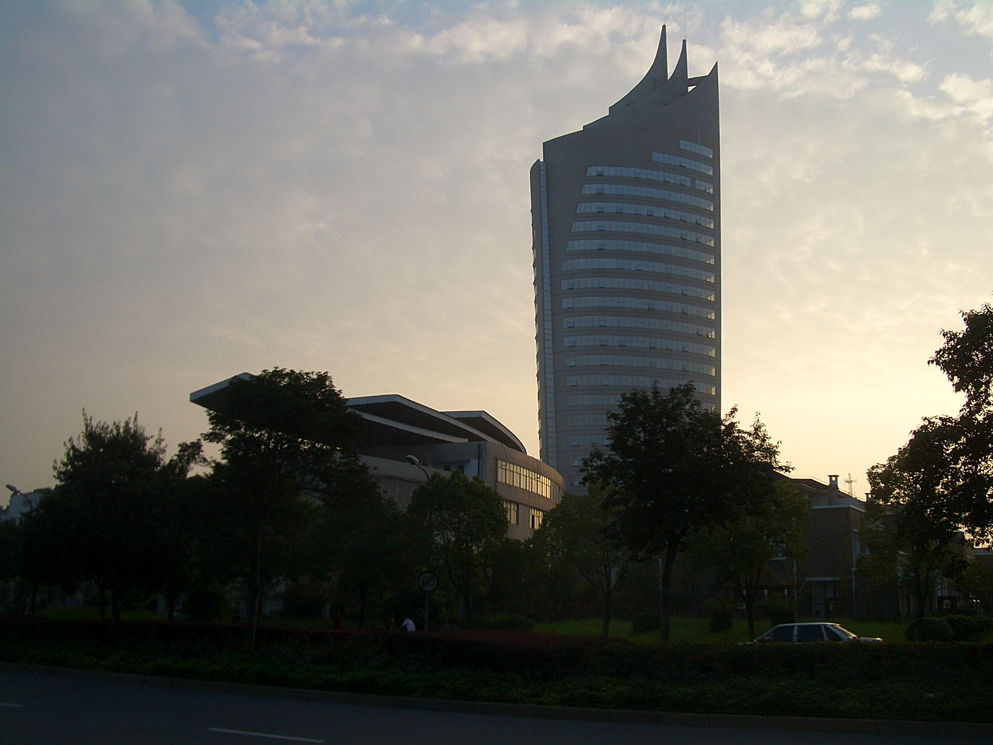 The office tower of the local television company in central Ezhou.